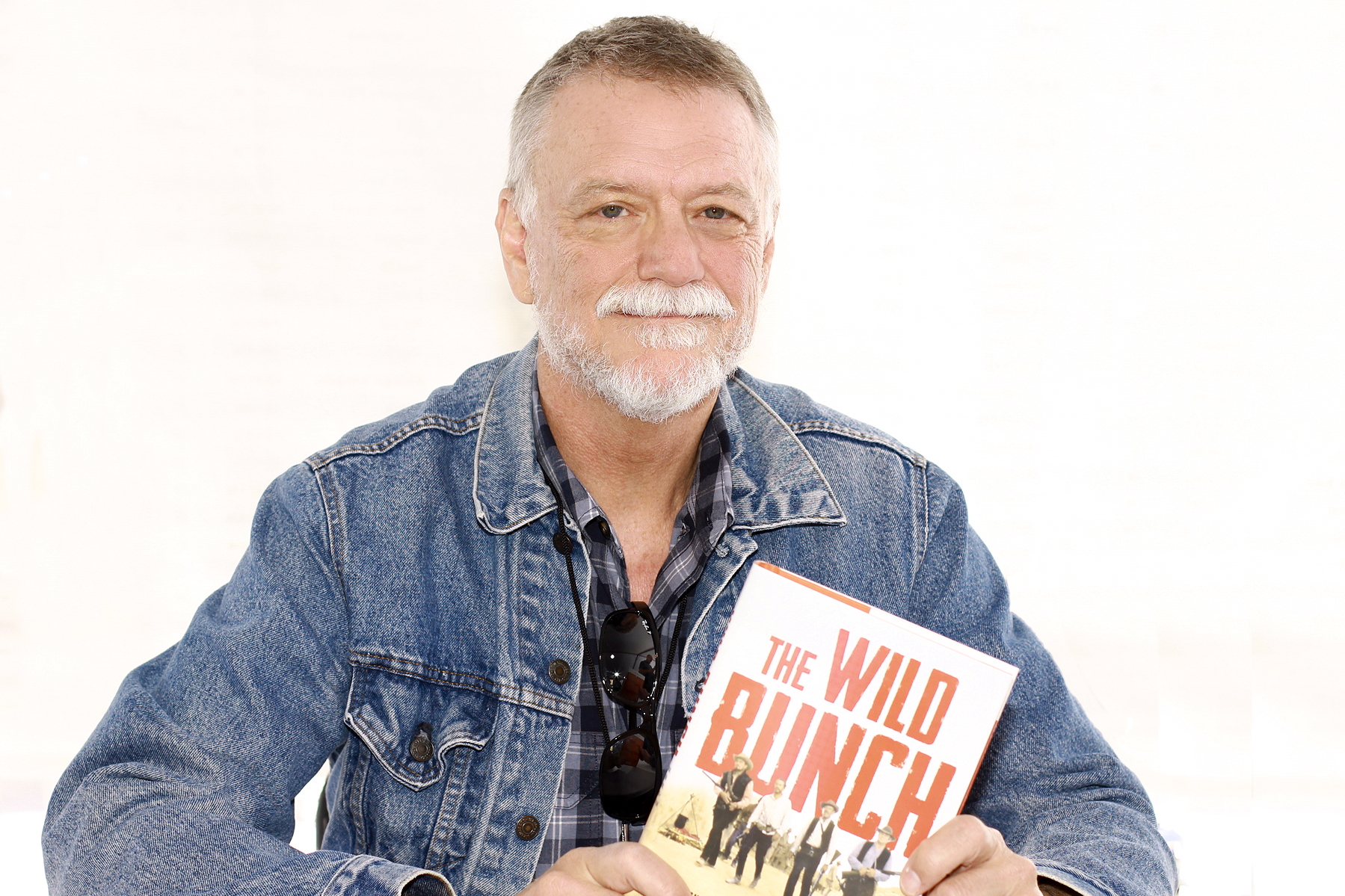 Author W. K. Stratton at the 2019 Texas Book Festival in Austin, Texas, United States.